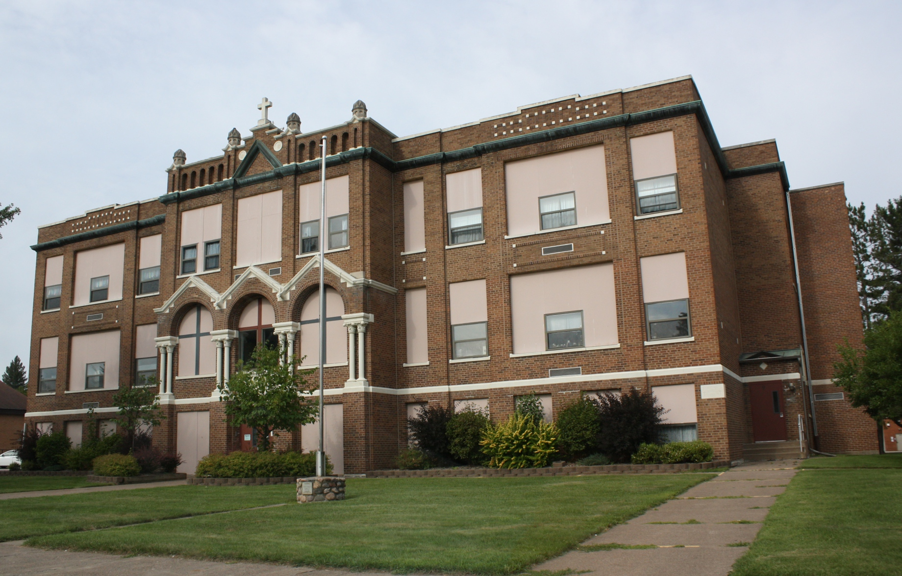 A school in Park Falls, Wisconsin.